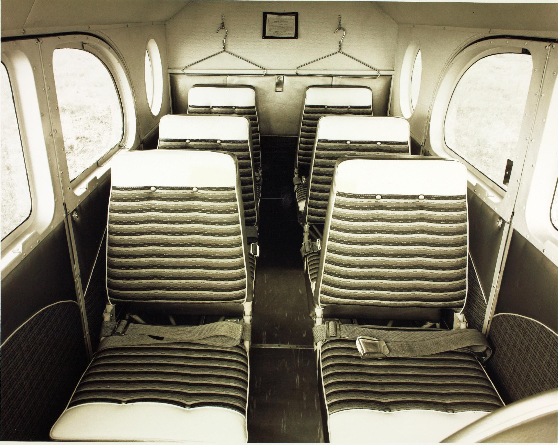 Cabin of Pilatus PC-6/A Turbo-Porter utility aircraft.